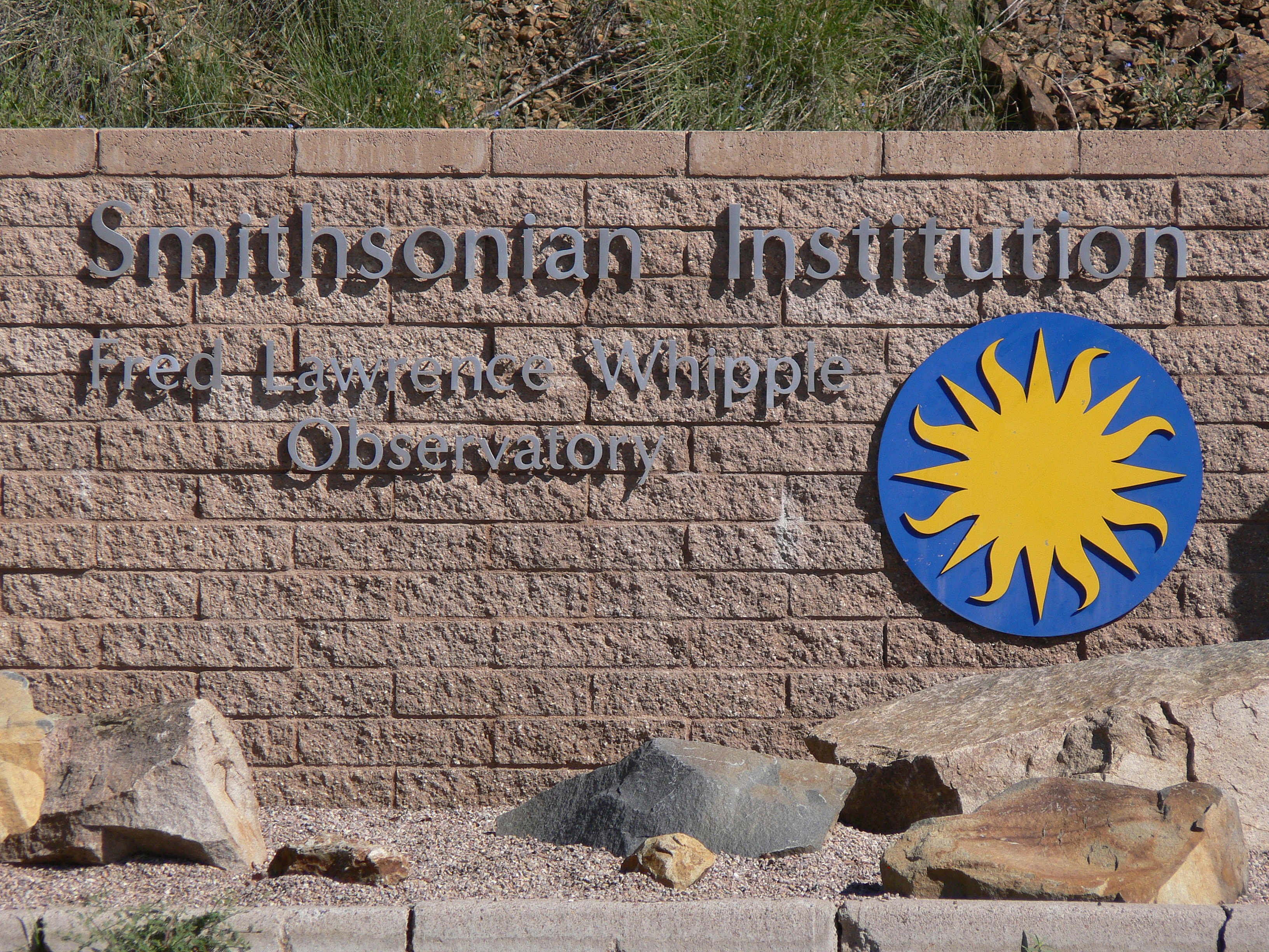 The entrance to the Fred Lawrence Whipple Observatory located on the slopes of Mount Hopkins, Arizona, 2661 m